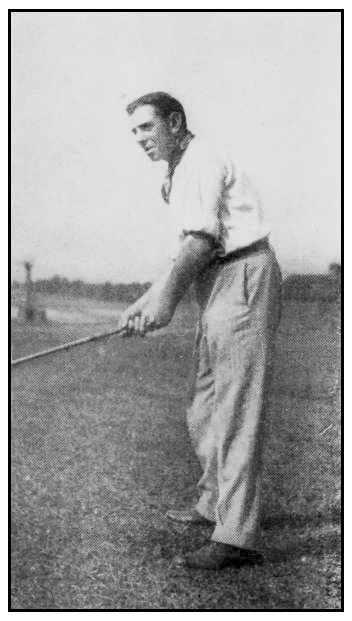 Willie Anderson during his win at the 1909 Western Open, his last major victory.